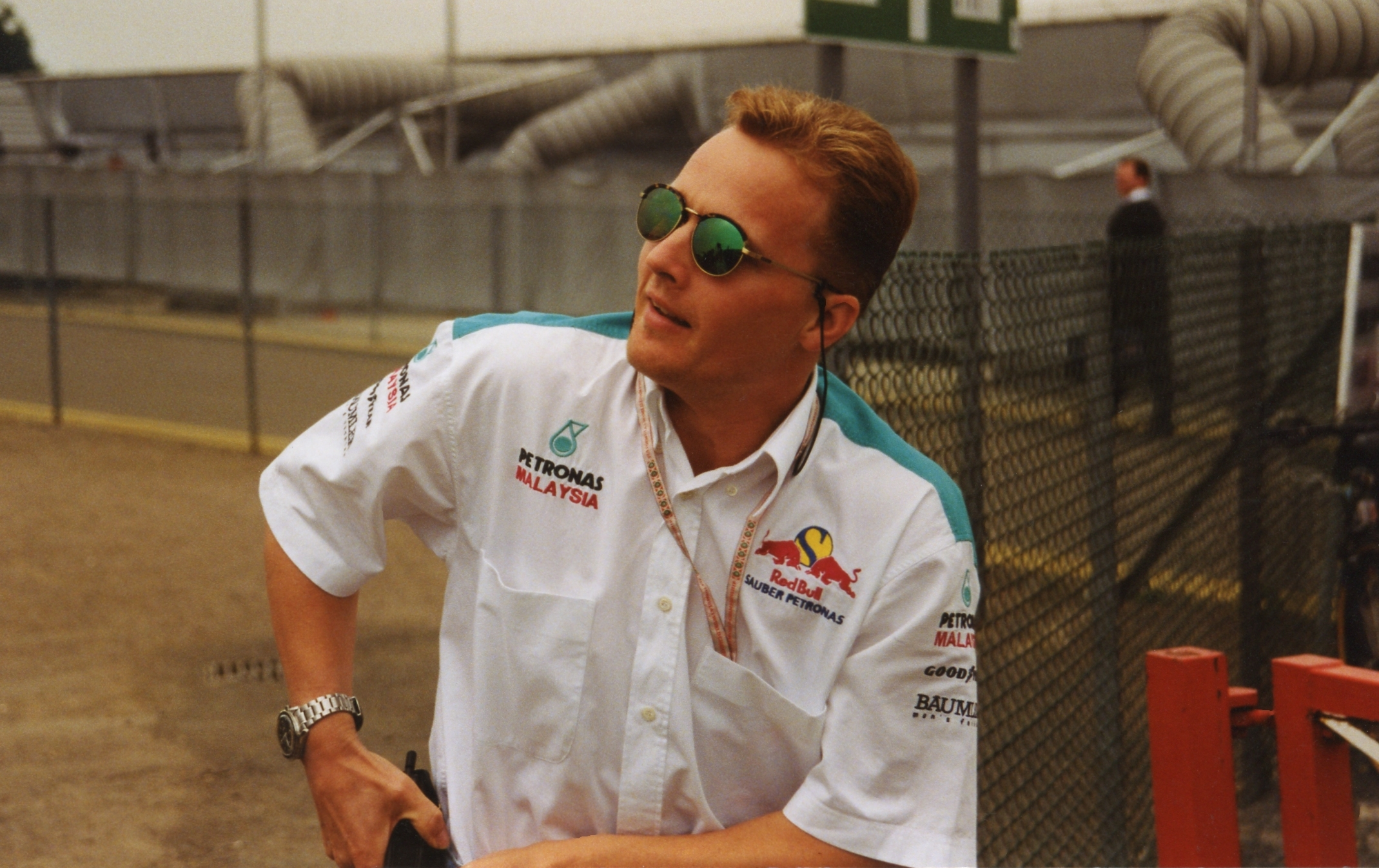 Johnny Herbert at the 1997 British Grand Prix.